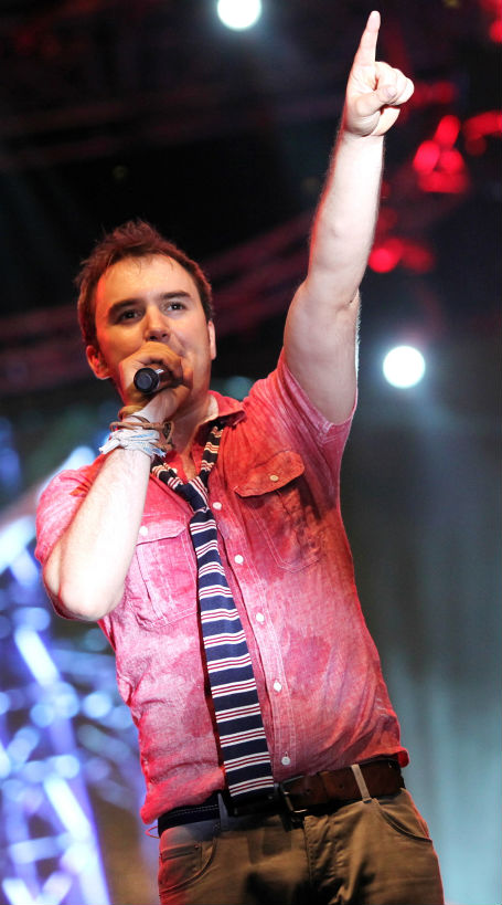 Mustafa Ceceli at Kucukcekmece, Istanbul.